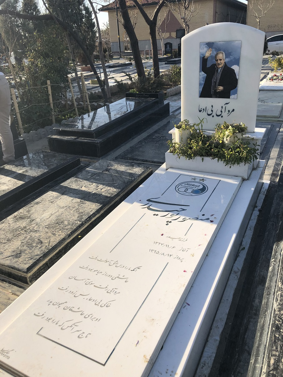 Beheshte Zahra Cemetery